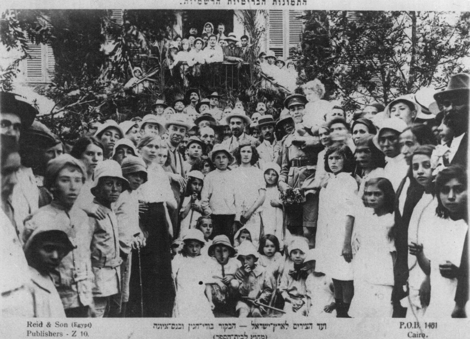 Haim Weizman visit , People of Israel